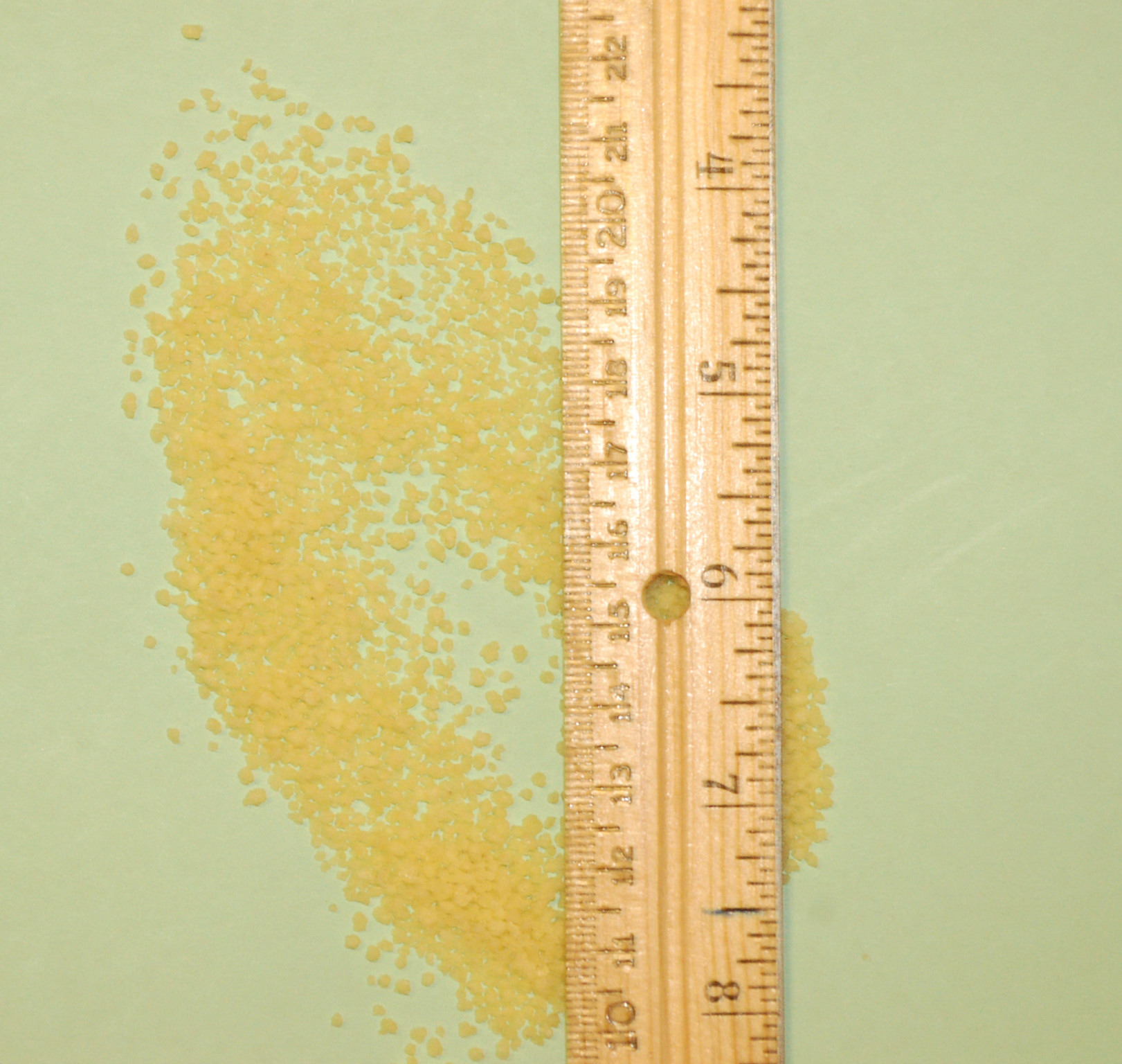 Couscous with rule, a pasta per American Heritage Dictionary.